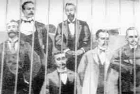 The heads of the Fasci Siciliani in the courtroom cage during the Trial